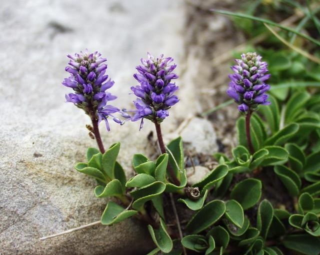 Veronica allionii